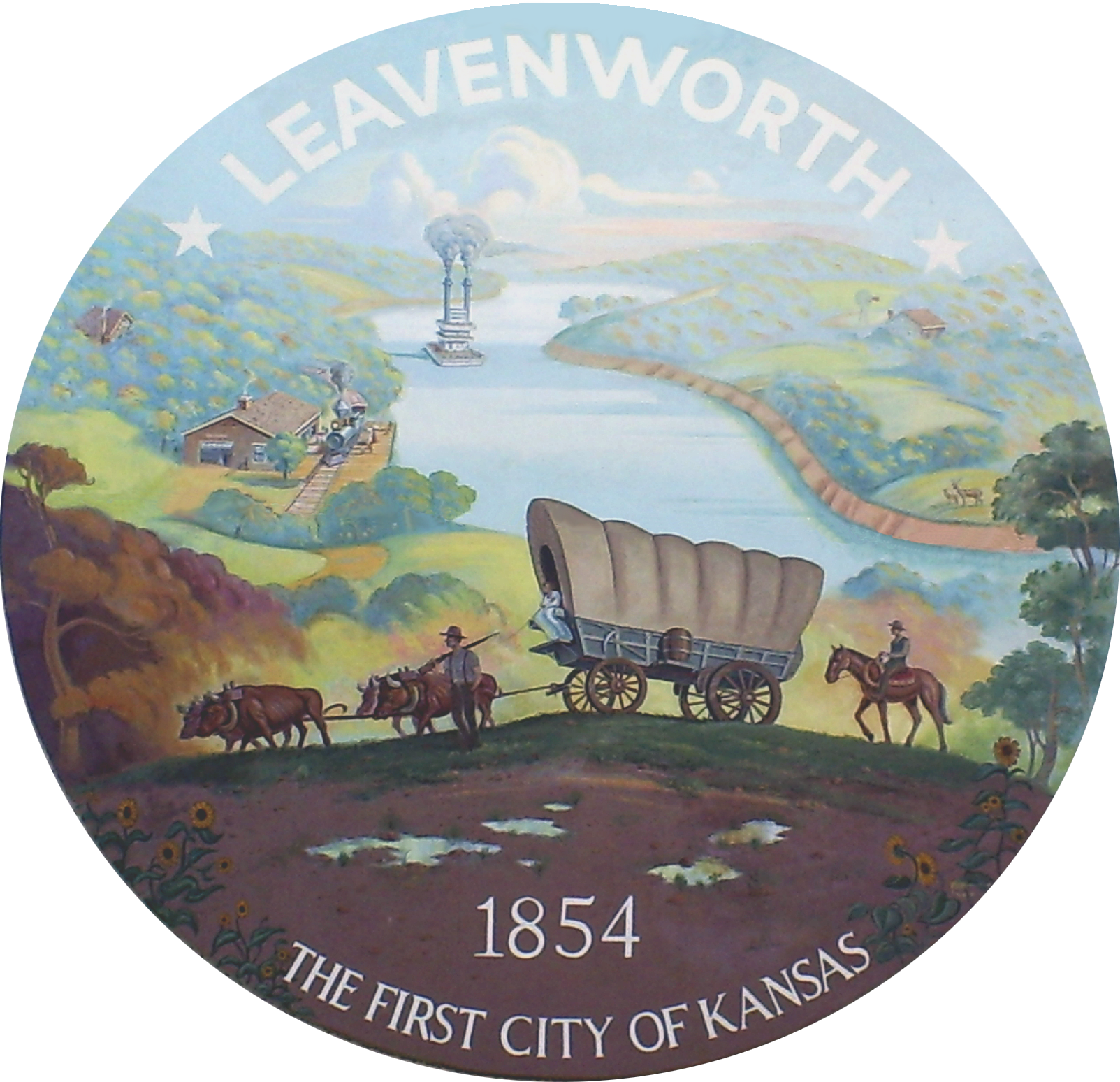 Seal of Leavenworth, Kansas, U. S.